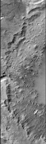 Eroded rim of Mädler crater on Mars, as seen by MRO's CTX camera. MRO is operated by the Jet Propulsion Laboratory. CTX is operated by Malin Space Science Systems. Picture credit is Malin Space Science Systems/NASA.